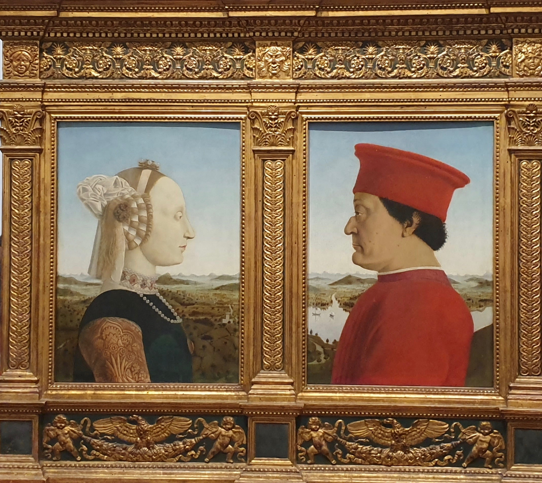 Double portrait of the Dukes of Urbino by Piero della Francesca